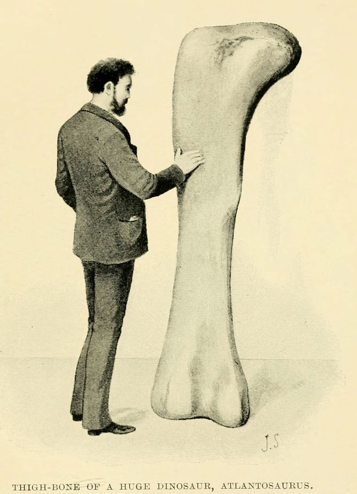 Thigh-bone of a huge dinosaur, Atlantosaurus. From a cast in the Natural History Museum, London. Length 6 feet, 2 inches. Plate XVIII